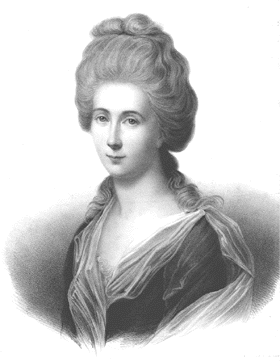 Charlotte Buff; Chalk lithograph, undated, by Julius Giere after pastel by Johann Heinrich Schröder (1757-1812).